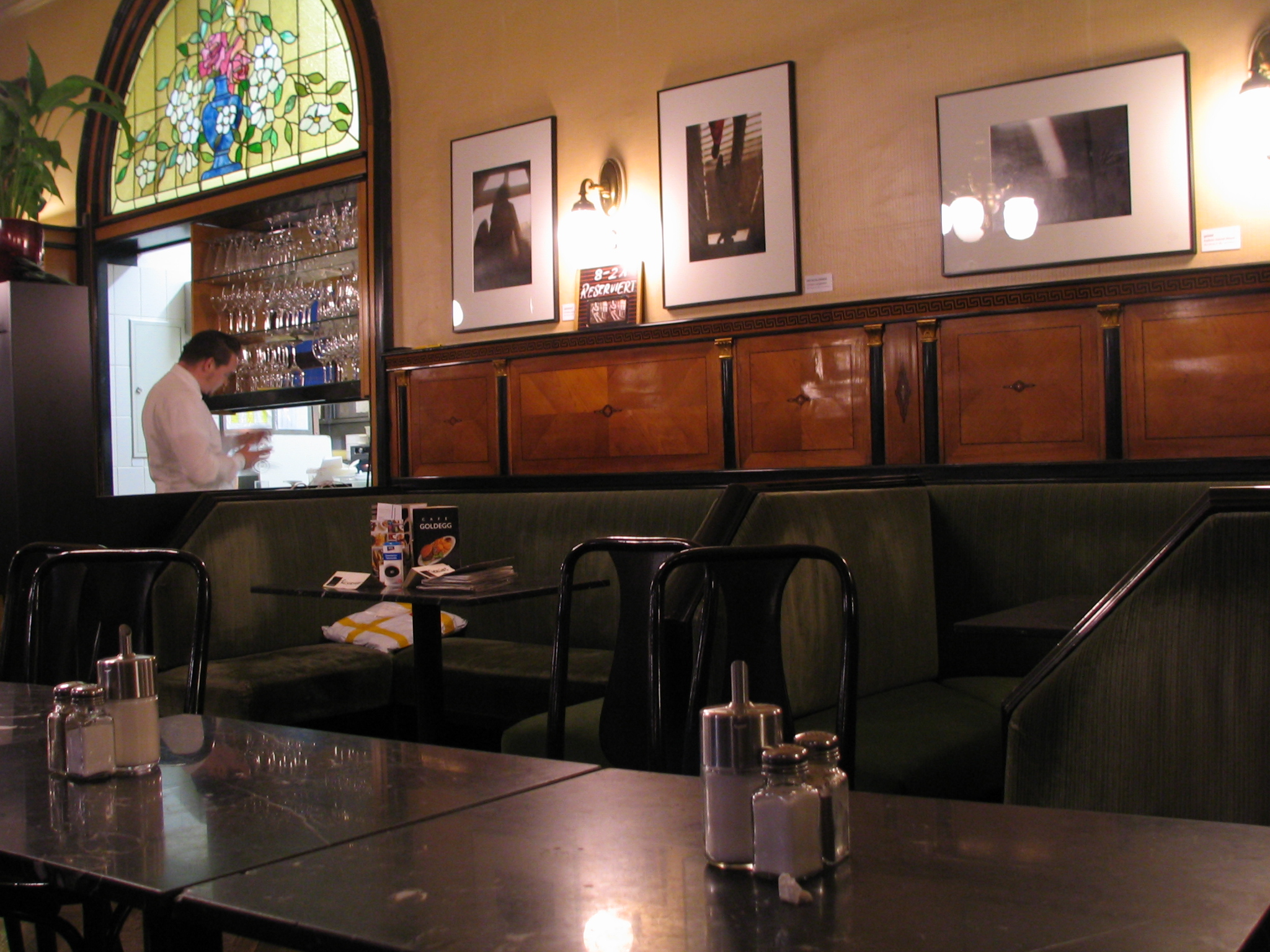 Inside the Café Goldegg in Vienna.